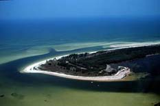 Anclote Key from the air, looking northwest out over the Gulf of Mexico.